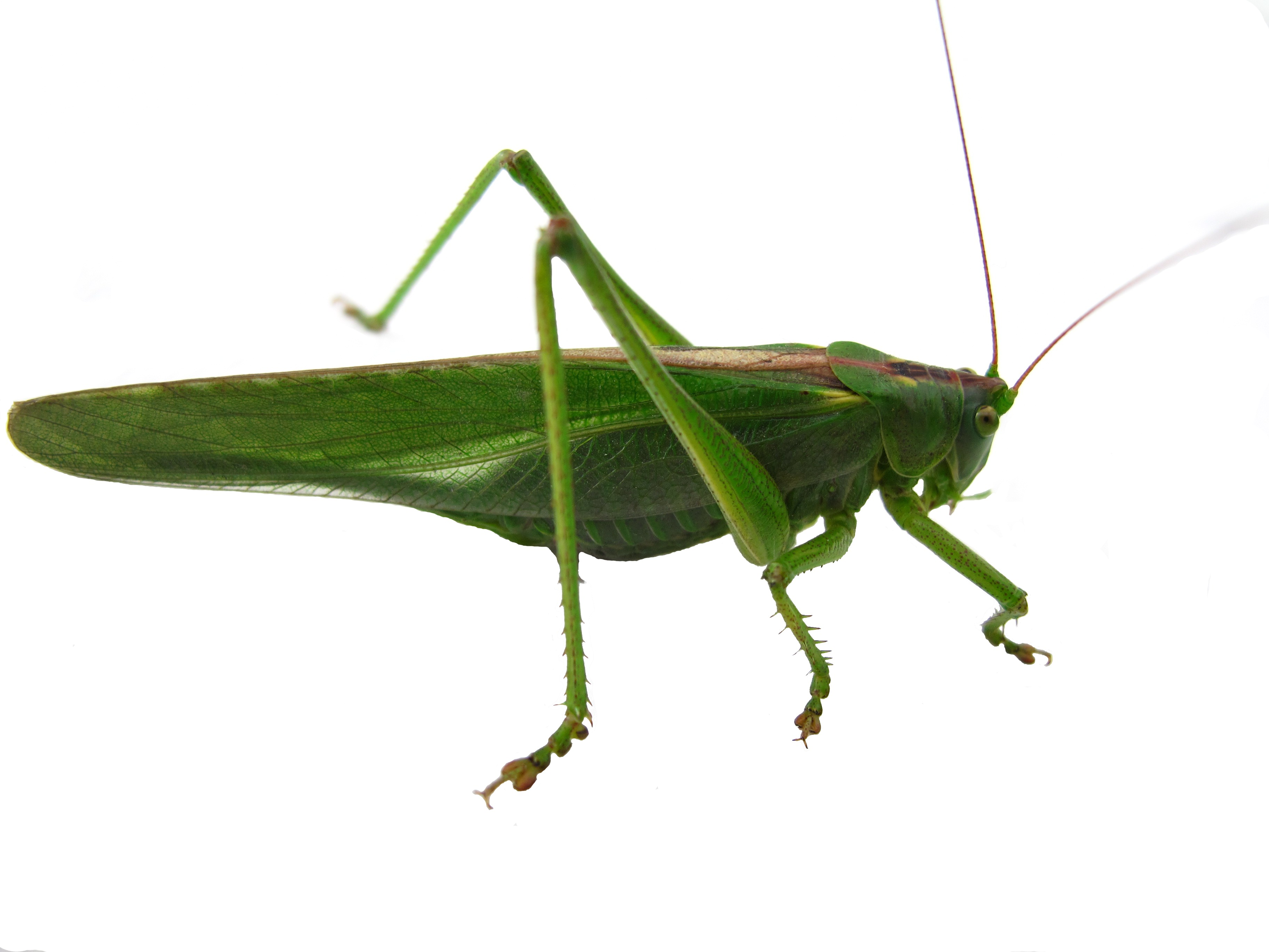 Tettigonia viridissima (Great Green Bush-Cricket / Locust). The grass-green insect was photographed in Vienna / Austria / EU.